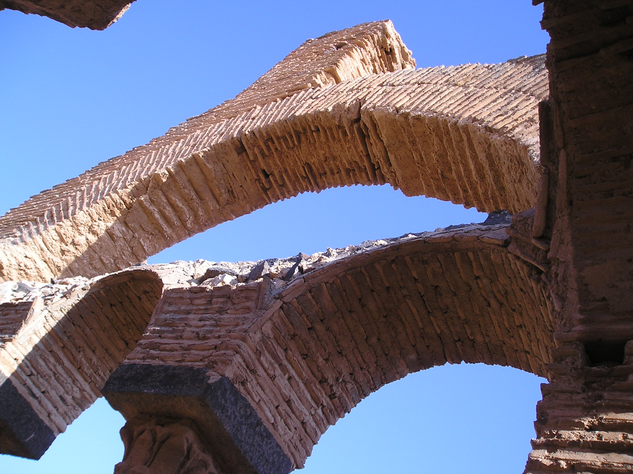 Qasr ibn Wardan, Syria - pendentive (once bearing the dome) of the church